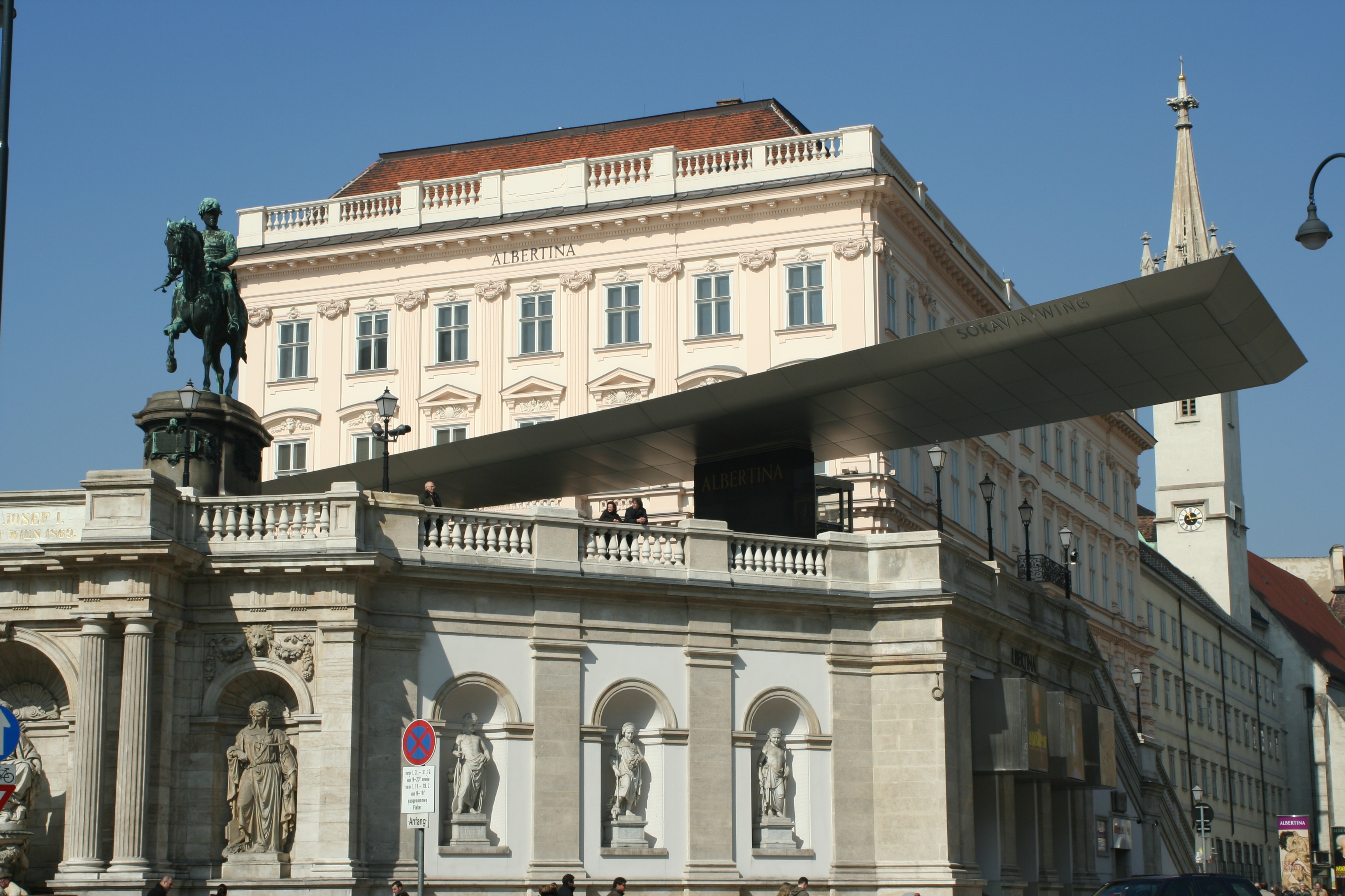 The Albertina museum in Vienna